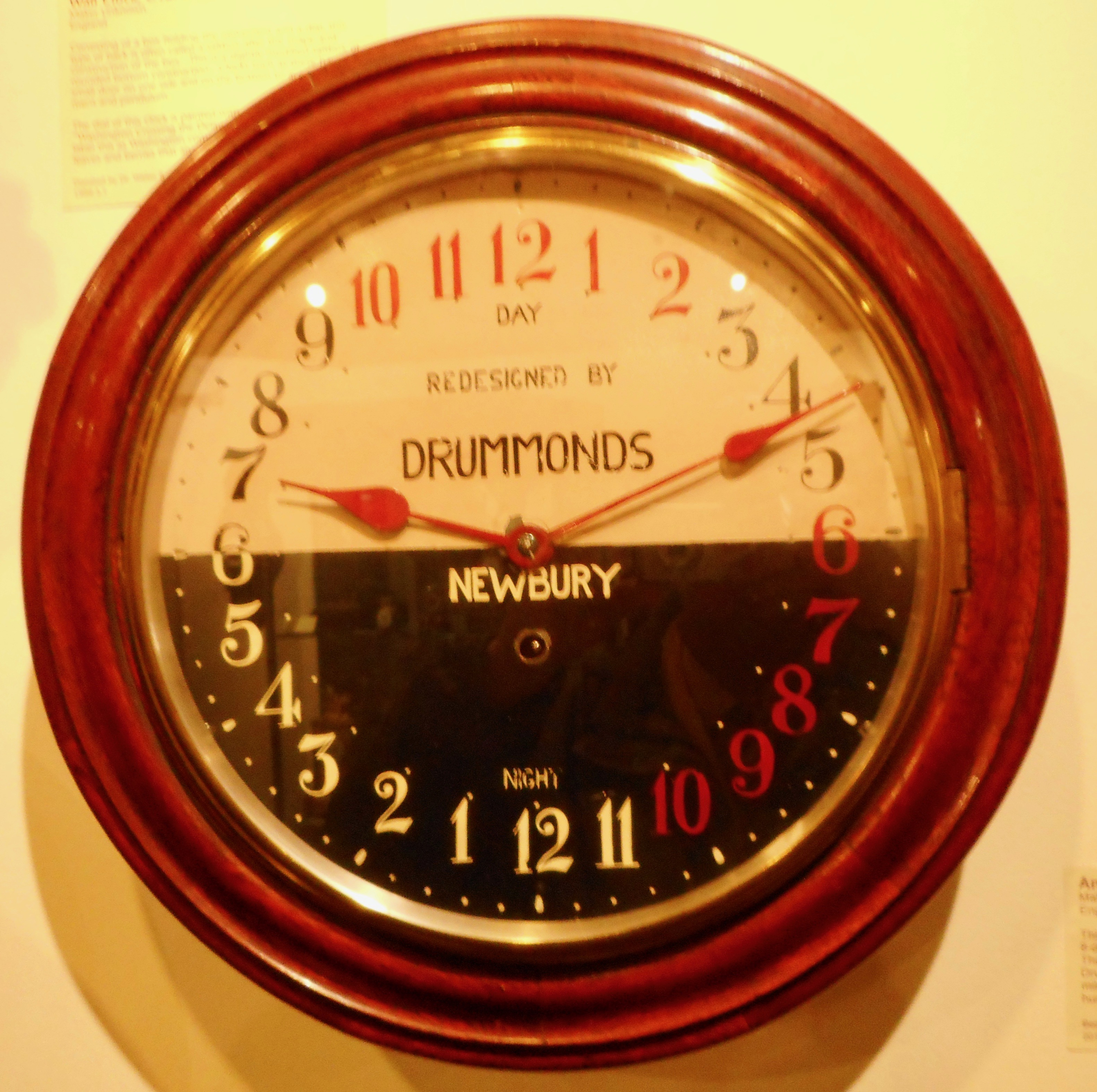 A 24 hour clock in the National Watch and Clock Museum. Museum label calls it an Anglo-American clock and says it was long used in a pub. (I'm sure there is a joke in there somewhere)